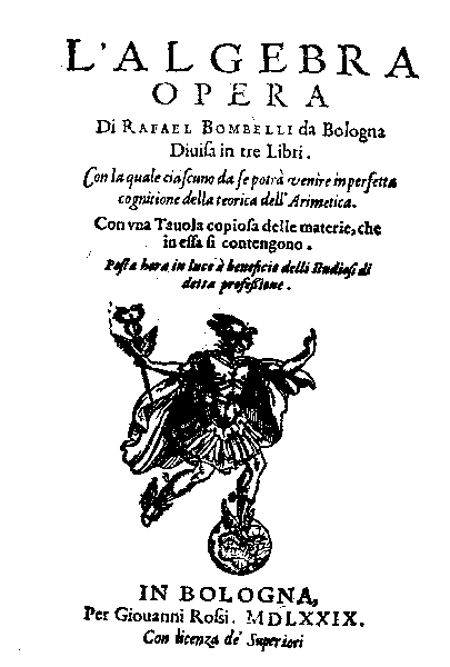 Cover of "Algebra" by Rafael Bombelli